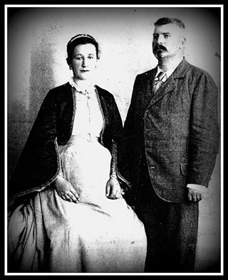 Borisav - Malisa Atanackovic with wife